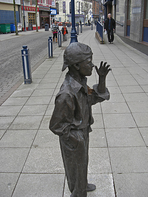 Cocking a snook Statue of a street urchin on Old Street, Ashton-under-Lyne.